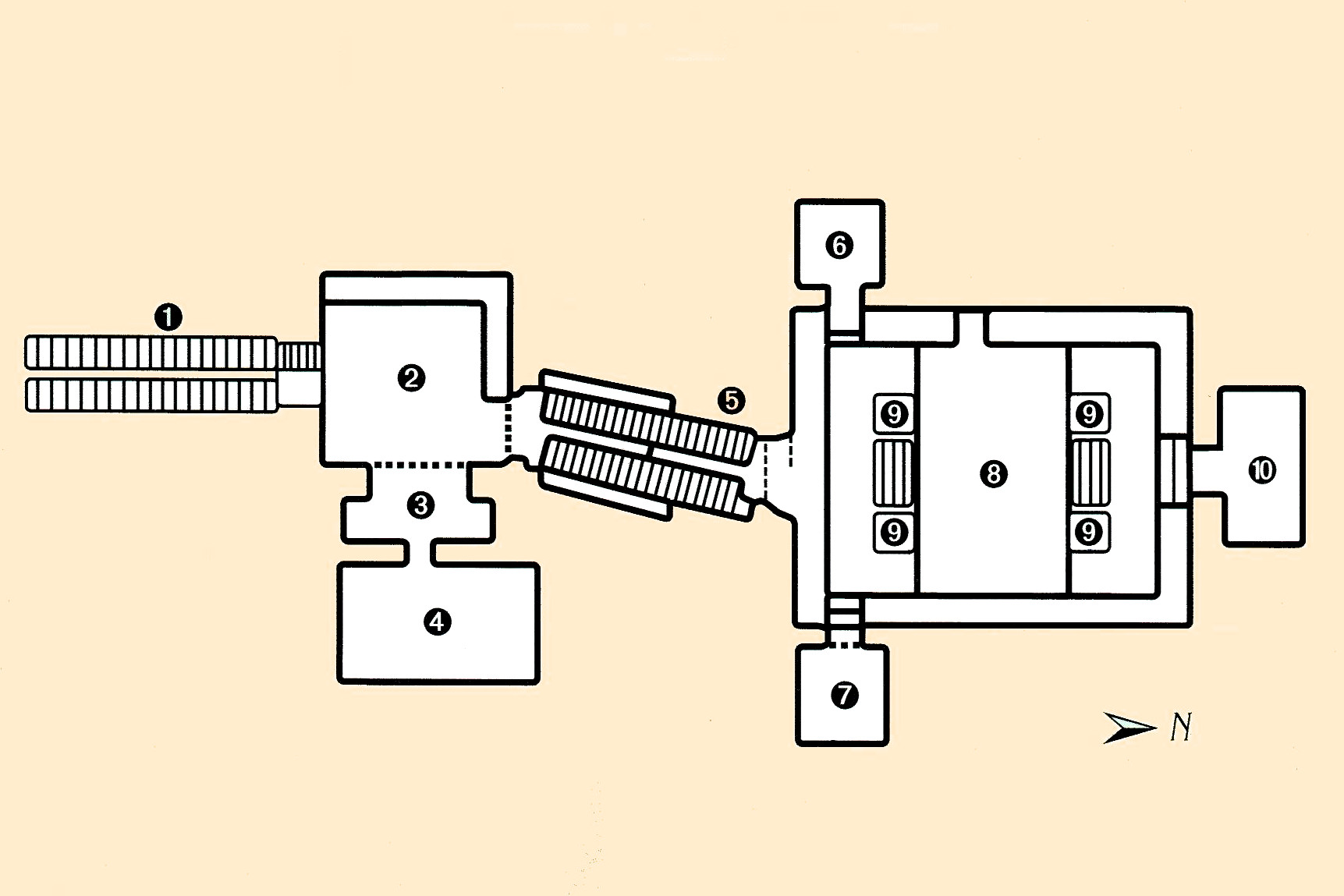 Tomb of Nefertari